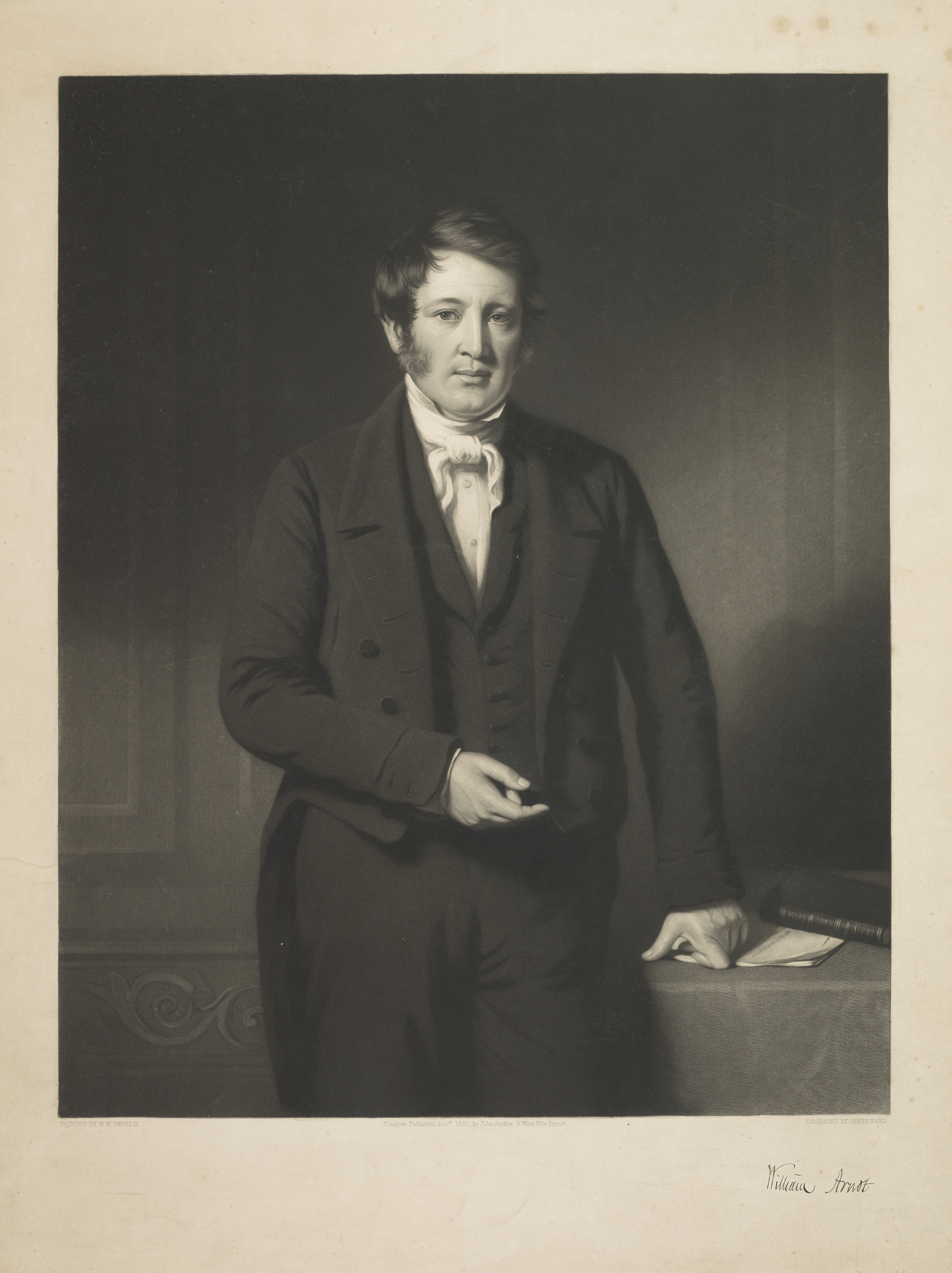 Rev. William Arnot, 1808 - 1875. St Peter's Church, Glasgow by James Faed from the National Galleries Scotland